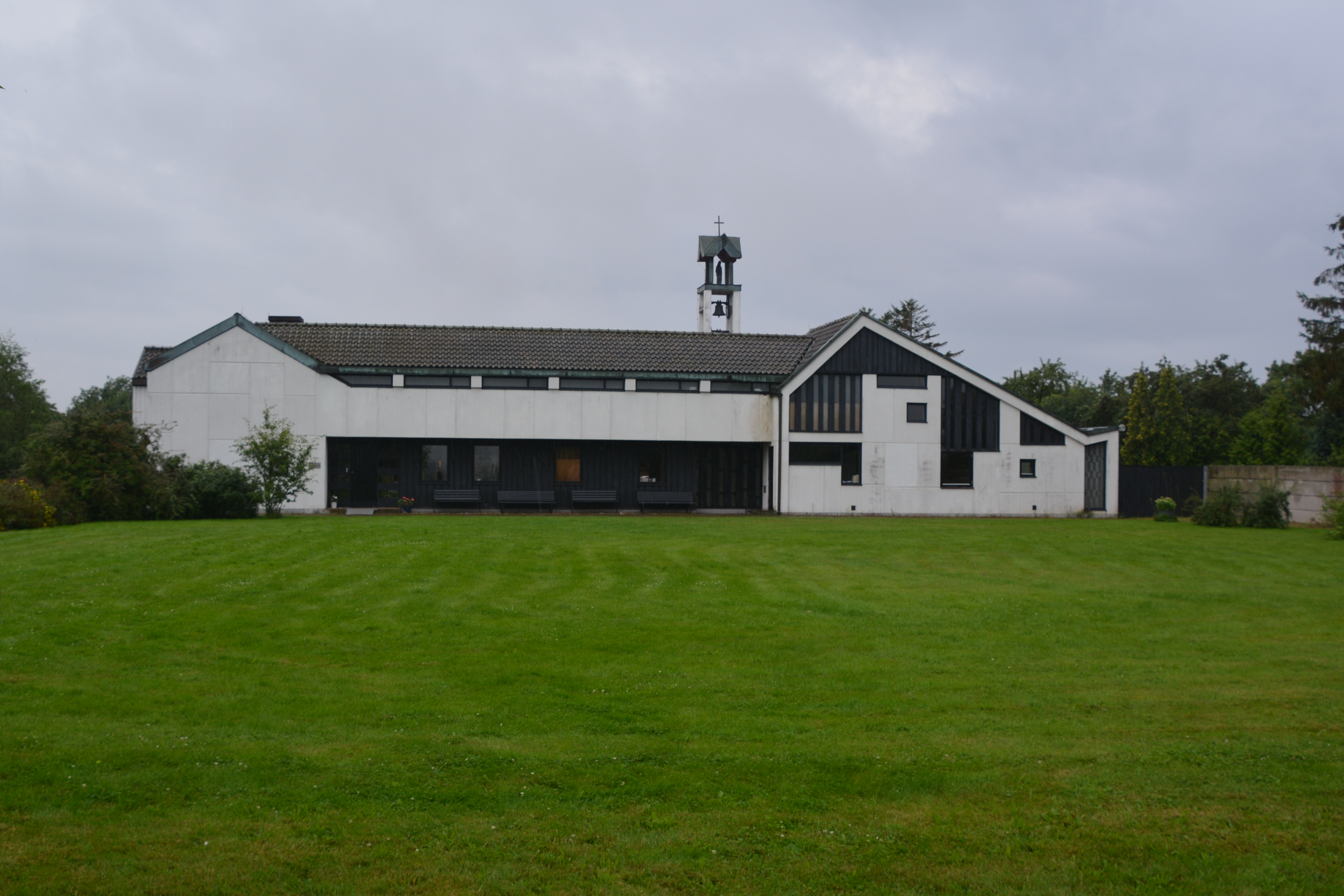 The Carmelite monastry at Glumslöv, Sweden